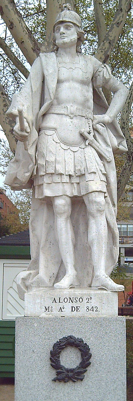 Statue of Alfonso II of Asturias (760–842) at the Plaza de Oriente (square) in Madrid (Spain). Sculpted in white stone by José Oñate between 1750 and 1753.